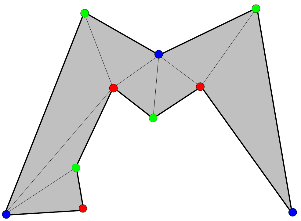 3-color of triangulated polygon